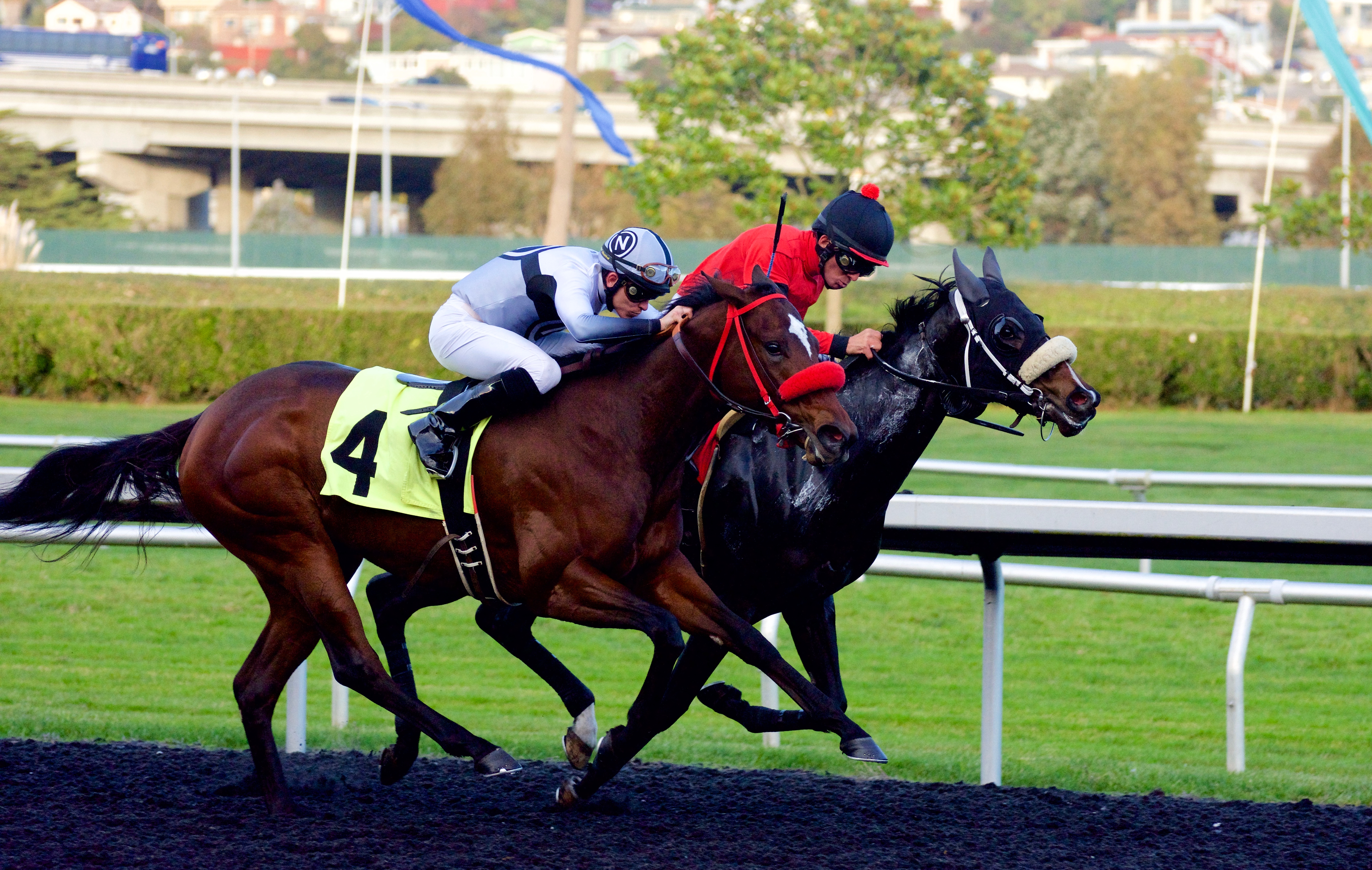 Horse racing at Golden Gate Fields, Albany, California. Race 7, 5.5 furlongs. Finish was a dead heat. Winner: #1 Blue Chip Betty Place: #4 Team Hollywood Show: #2 Office Chicks Also ran: Pulpitinthesky, Stormy Too, Silken Queen, Lucky Antares, Windward Storm, and Miss Gunny 26 December 2017